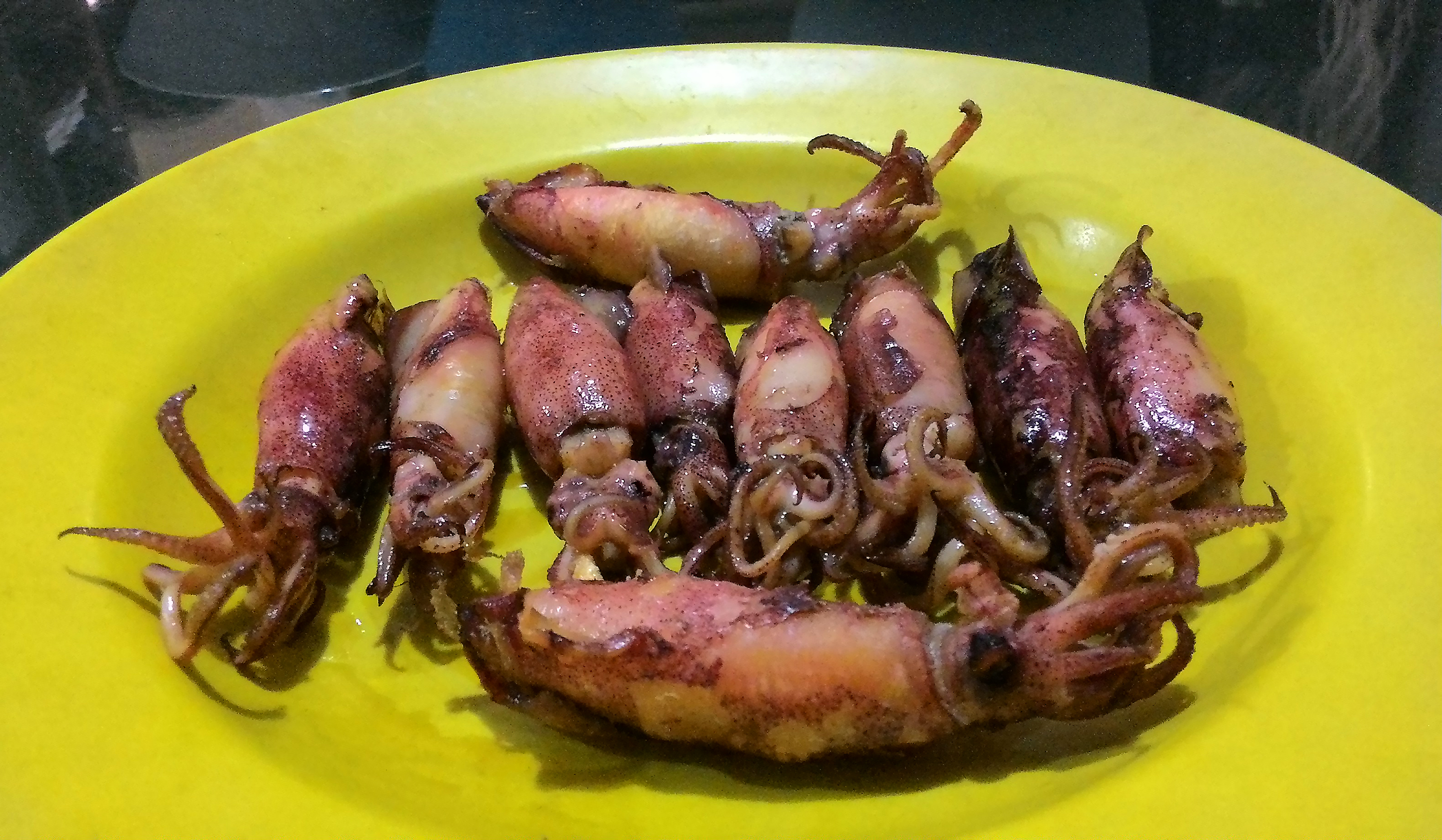 Home made cumi asin, Indonesian salted squid, fried and served in a house in Jakarta, Indonesia.